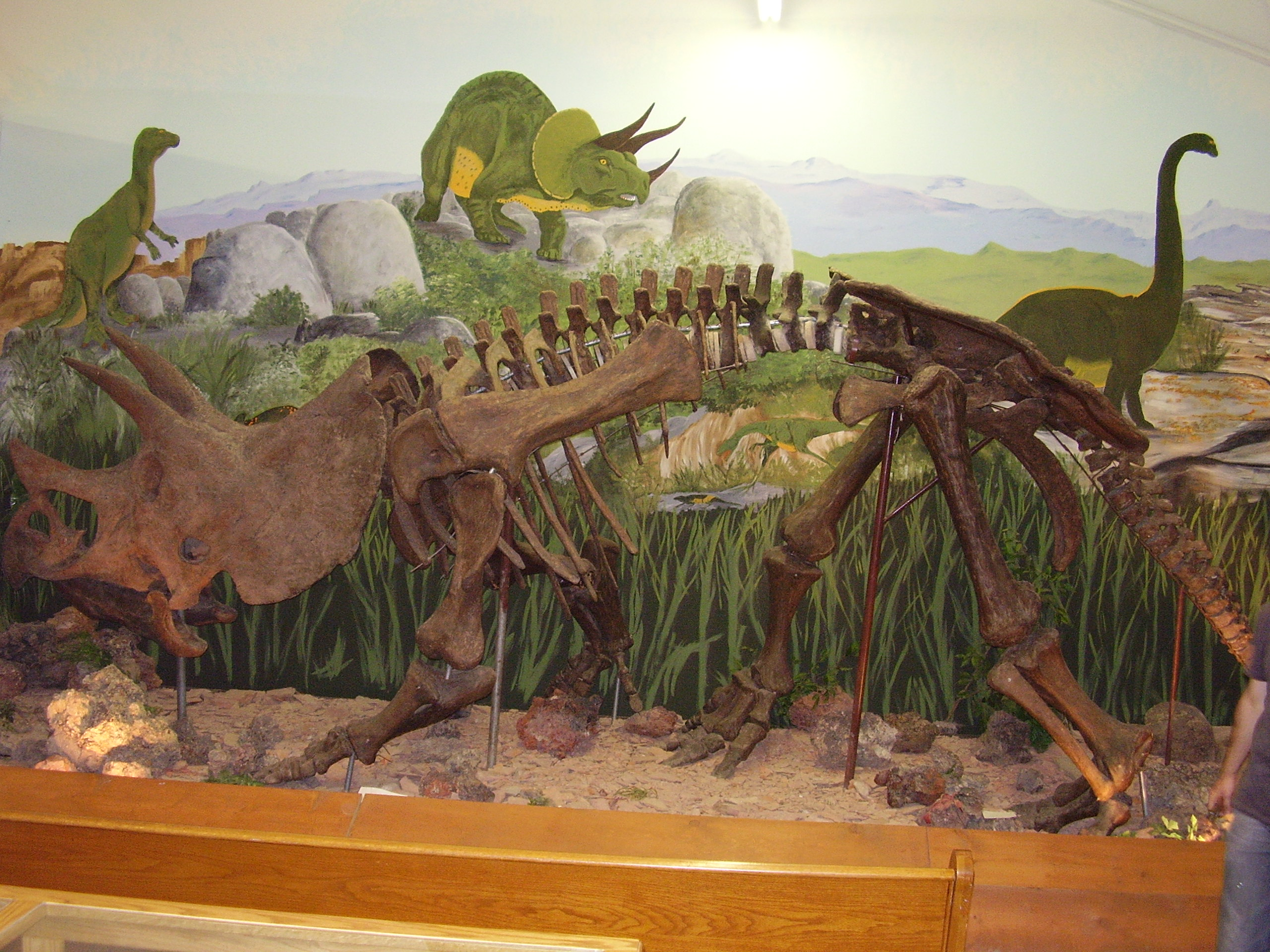 Triceratops skeleton mount in Garfield County Museum, Jordan, MT.